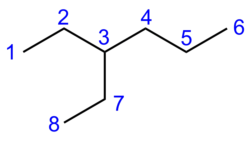 3-Ethylhexan mit nummerierten Atomen, 3-Ethyl hexane with numbered atoms